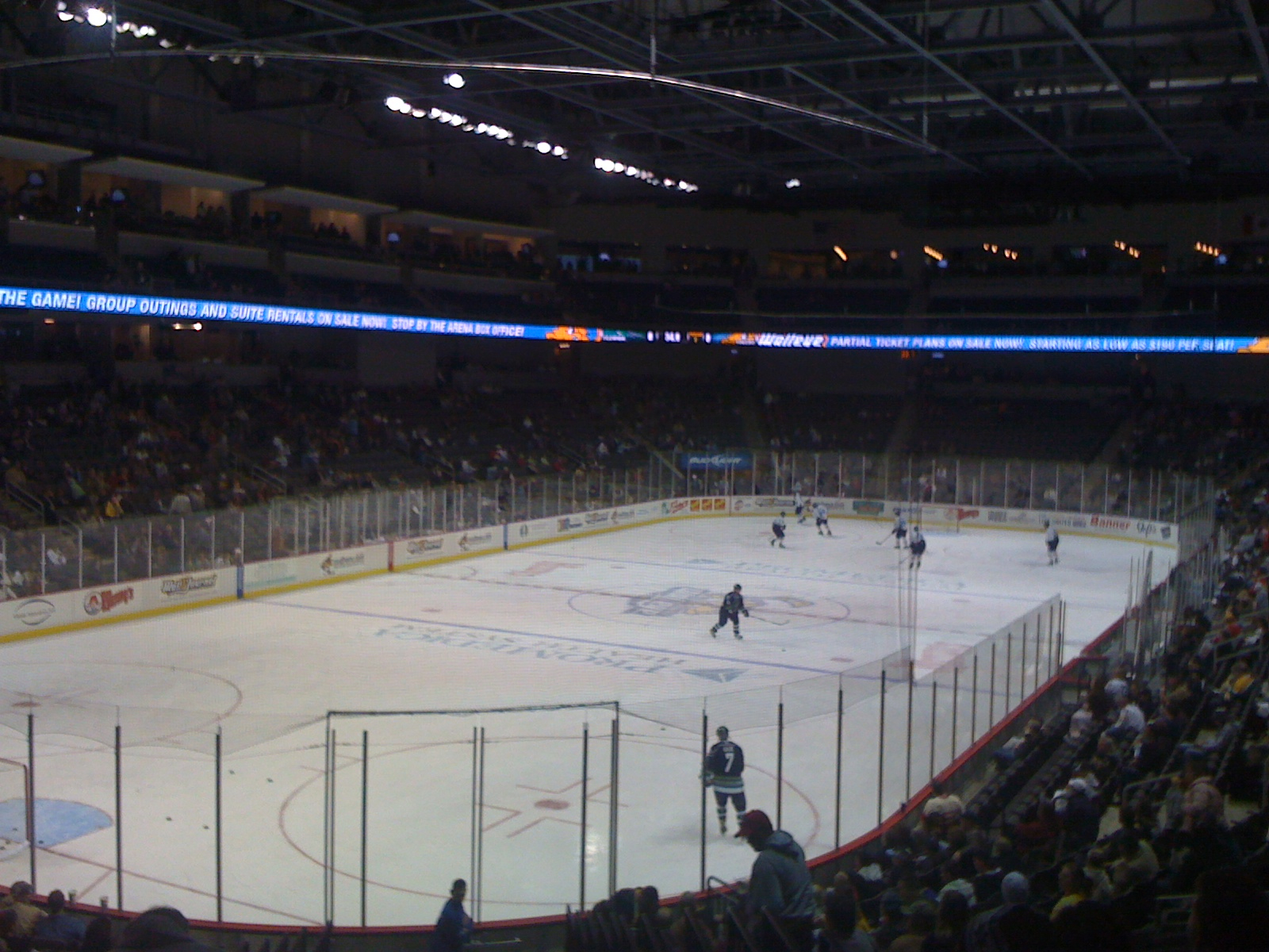 Inaugural night for the Toledo Walleye ice hockey team in Toledo, Ohio, USA.